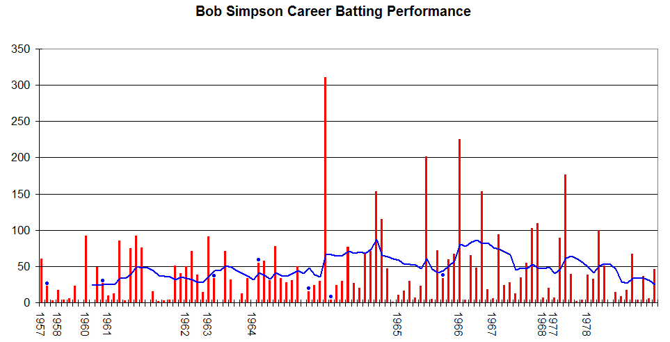 This graph details the Test Match performance of Bob Simpson. It was created by Raven4x4x. The red bars indicate the player's test match innings, while the blue line shows the average of the ten most recent innings at that point. Note that this average cannot be calculated for the first nine innings. The blue dots indicate innings in which Simpson finished not-out. This graph was generated with Microsoft Excel 2002, using data from Cricinfo and .au.